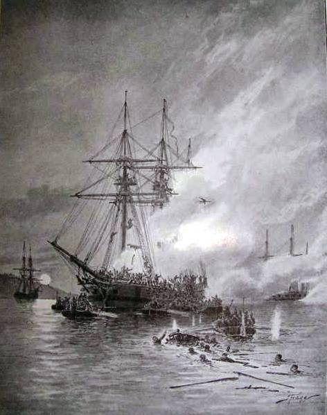 Swedish frigate HMS Styrbjörn.